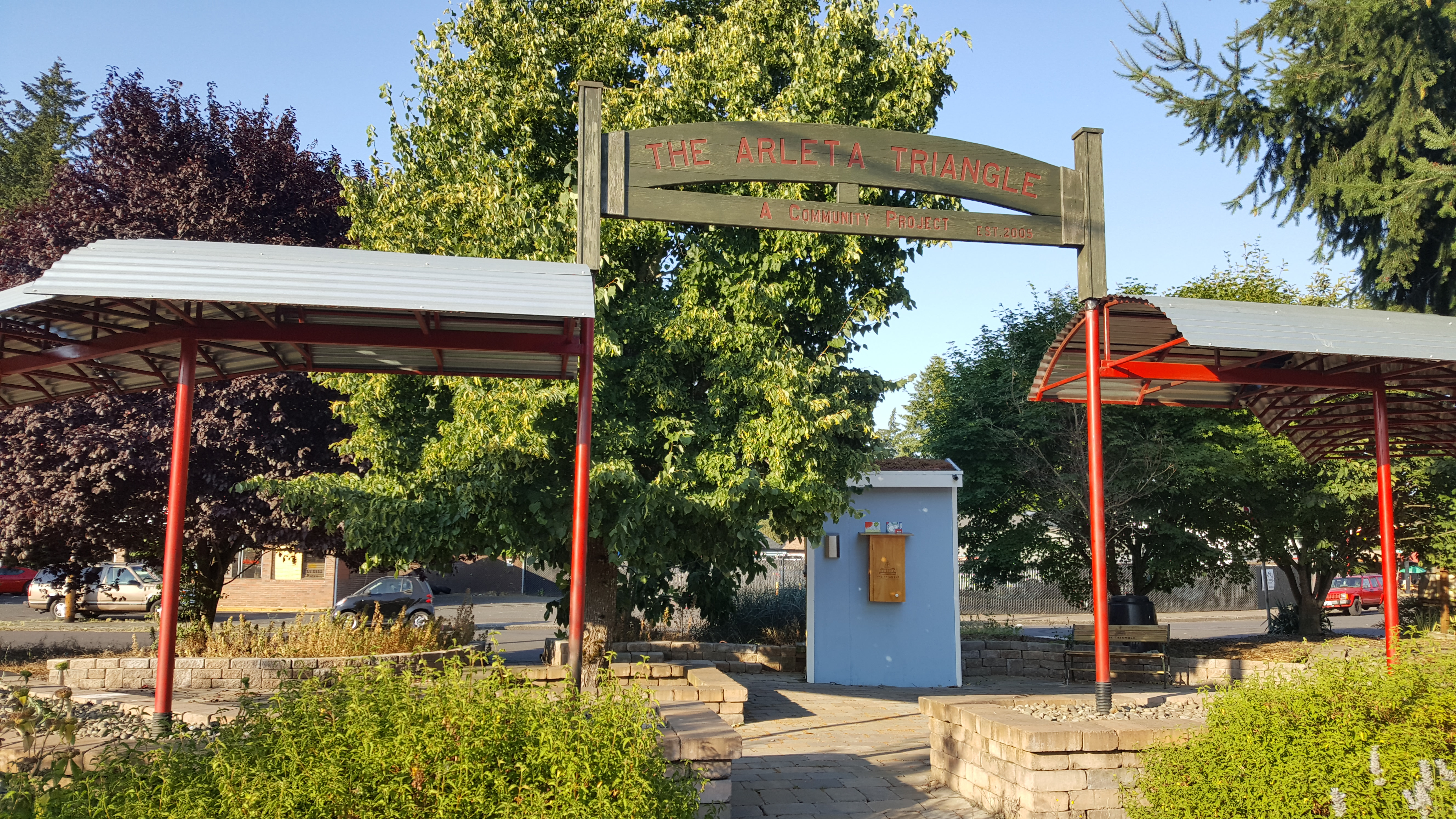 Southeast Portland, Oregon, July 2020